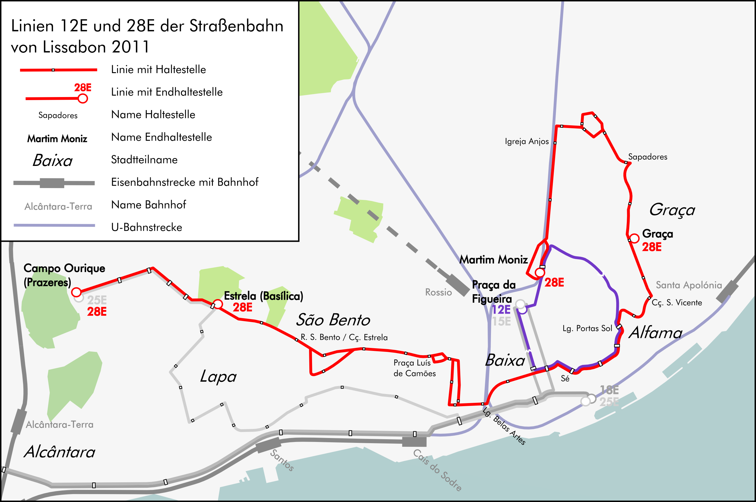 Map of Tram lines 28E and 12E in Lisbon 2011.